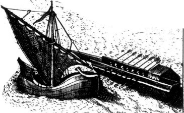 Image from the book De Cruce Libri Tres by Justus Lipsius